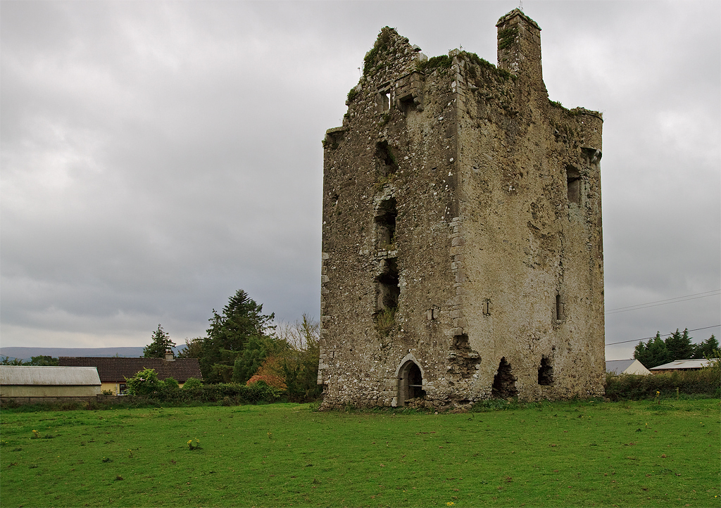 Castles of Munster: Knockgraffon, Tipperary. North of the River Suir is Knockgraffon Castle which stands less than 2 km to the west of a comparatively new M8 motorway. This is a C16 Butler tower having circular bartizans on the NW and SE corners and an east facing entrance doorway.